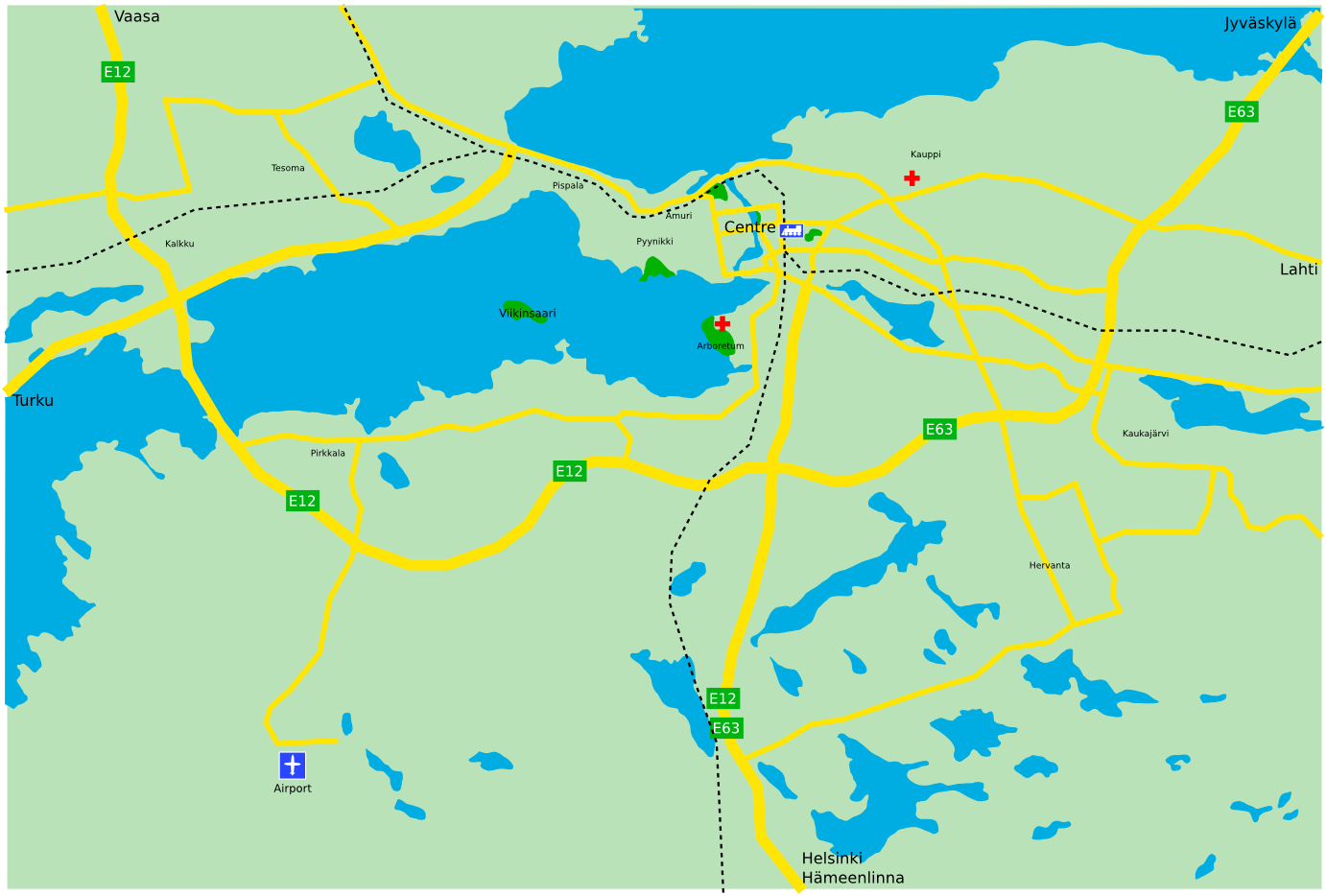 Tampere Map. Rough map of Tampere and surroundings, Tampere.